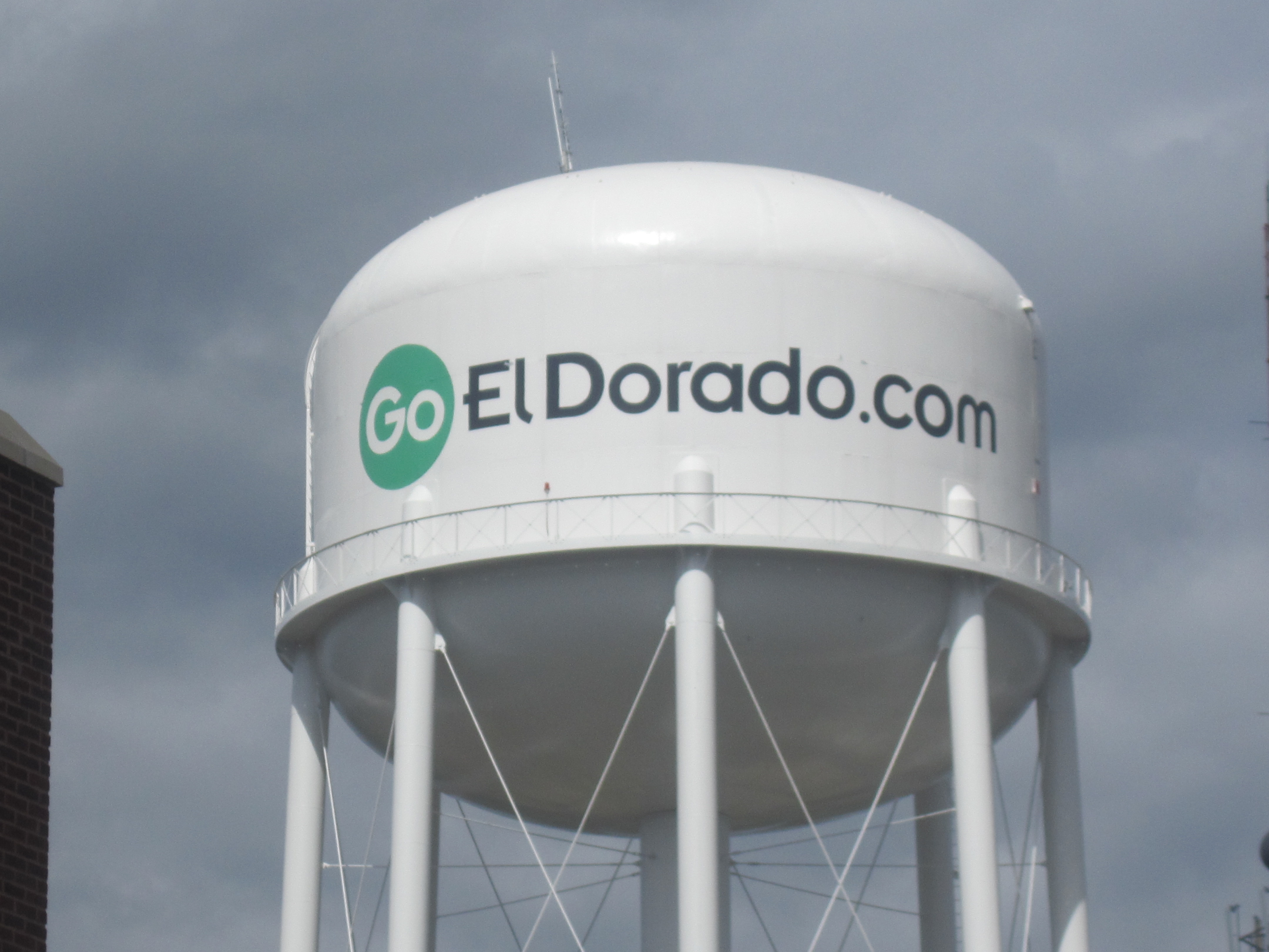 I took photo of El Dorado, AR, water tower with Canon camera.